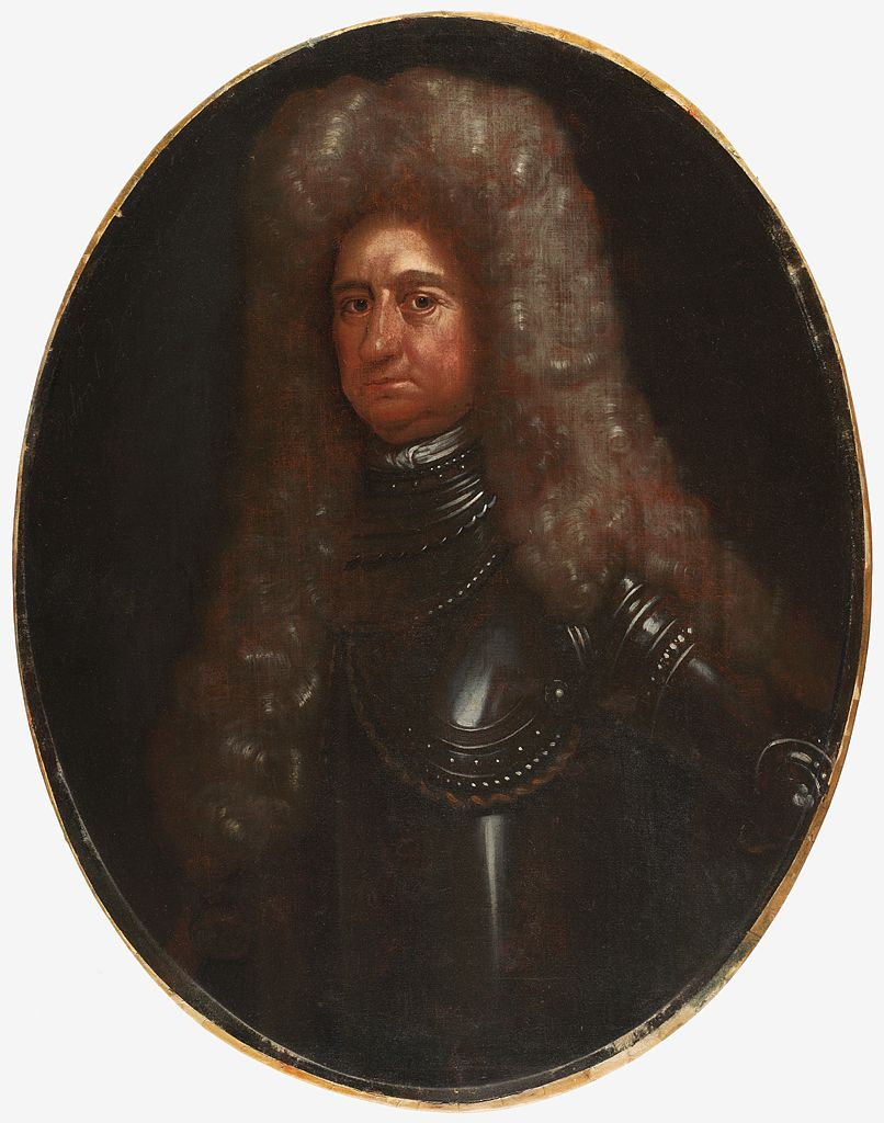 Fitz-John Winthrop (14 March 1637 – 27 November 1707), was the governor of the Colony of Connecticut and grandson of John Winthrop. Harvard University Portrait Collection, H609, oil on canvas.